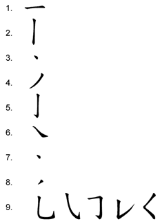 The basic graphic elements of a Chinese Han character